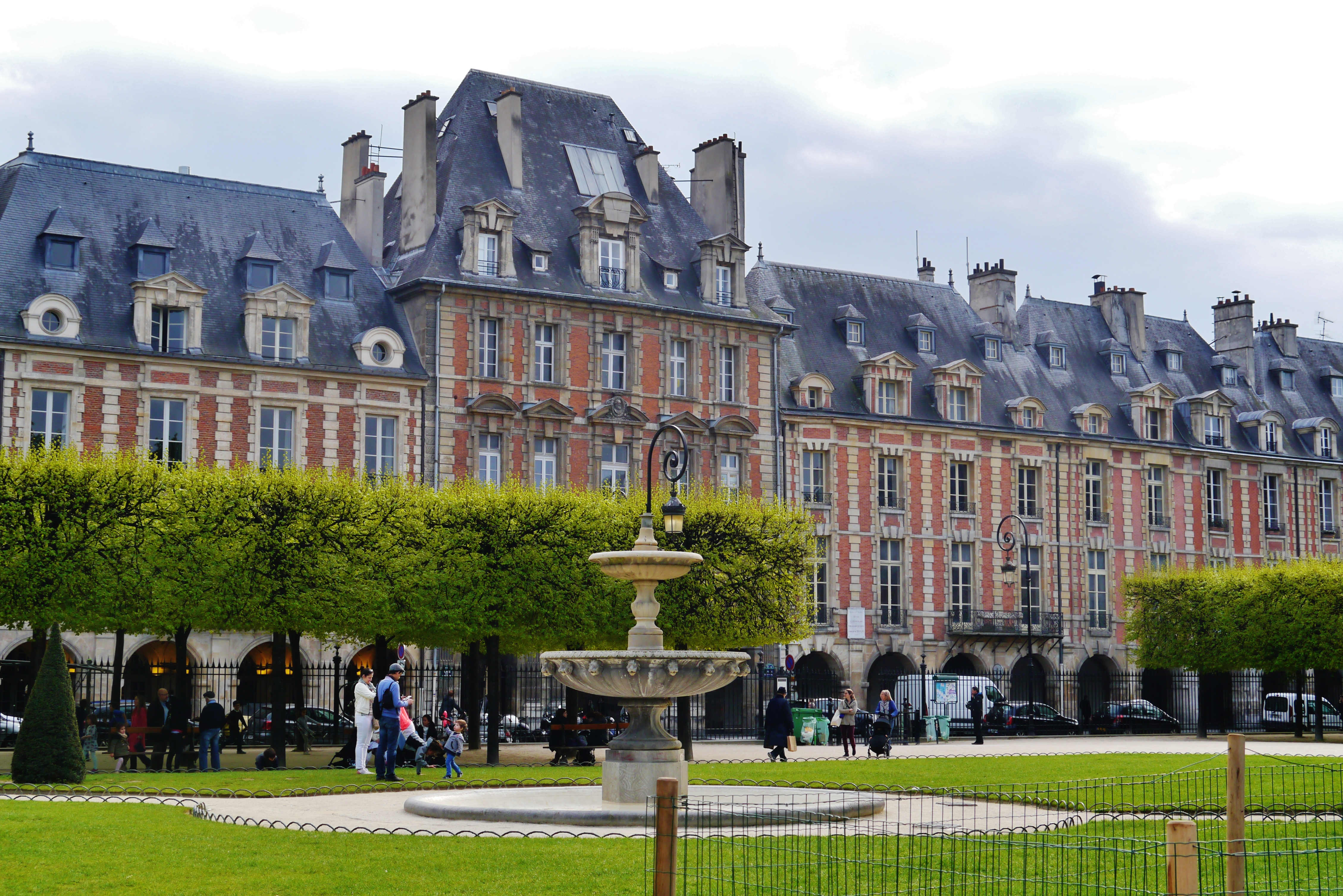 Vosges Square, Paris, Region of Île-de-France, France